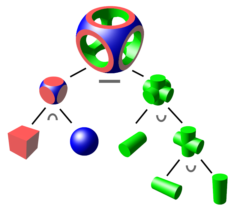 Illustration of CSG (Constructive Solid Geometry) tree. Created and rendered in POV-Ray.